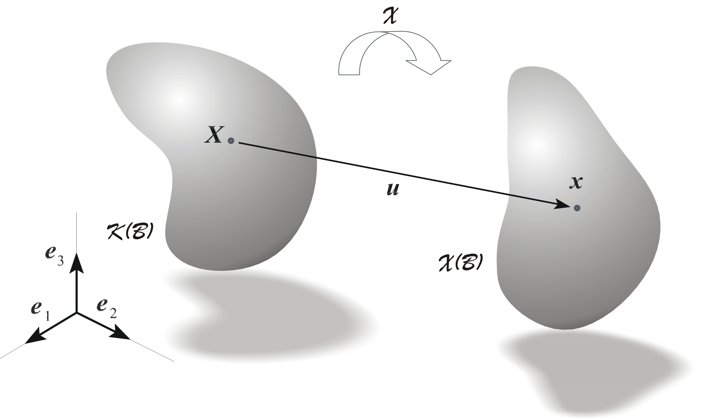 Reference and deformed configuration in Cauchy continuum body